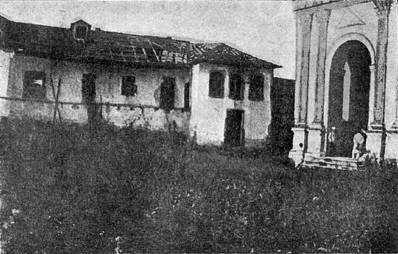 Ruins of Negoiești Monastery. Foto from the archive of general Petre Vasiliu-Năsturel. 02